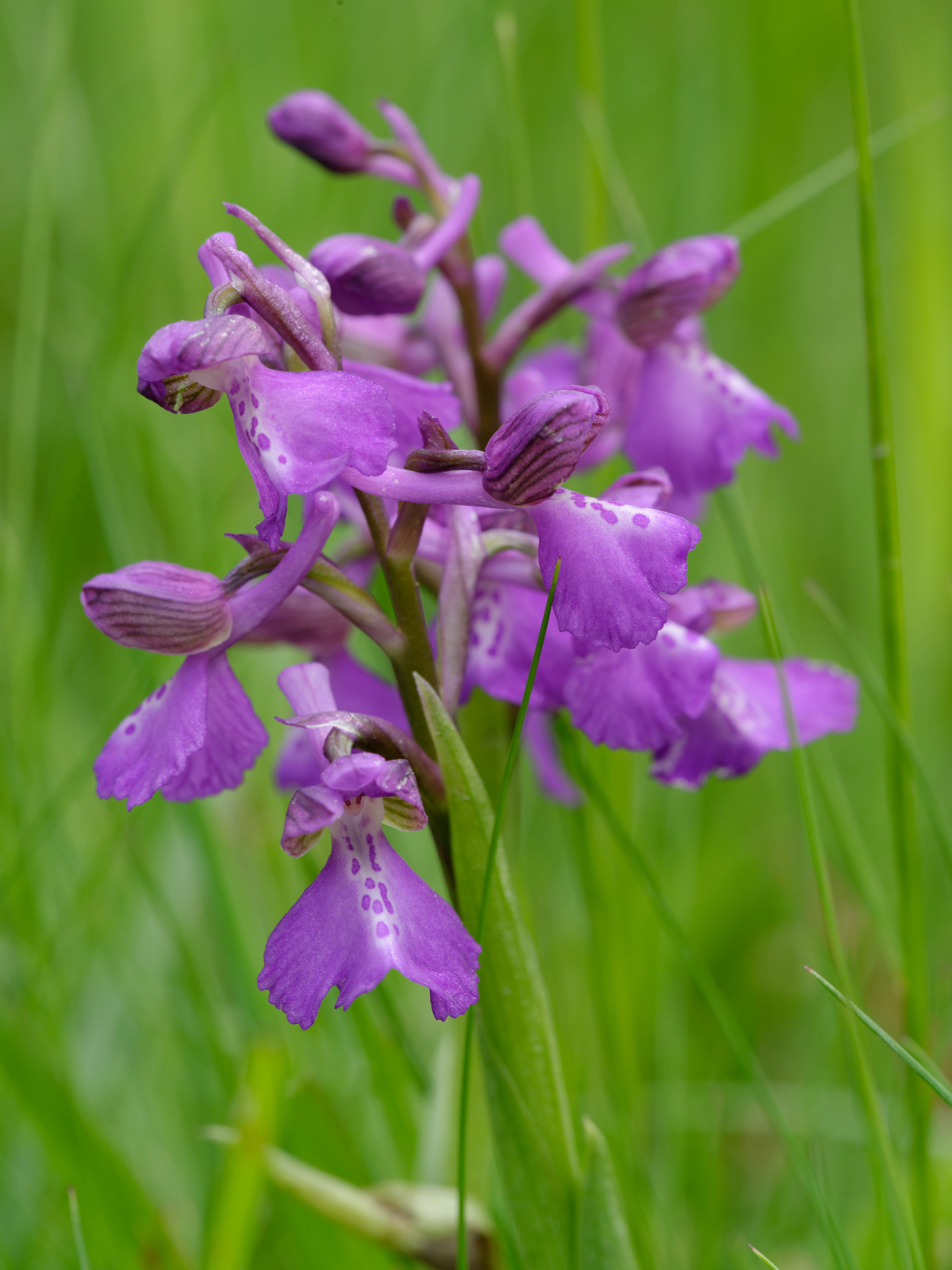 Green-winged orchid (Anacamptis morio) growing in a cow pasture in Paslières, France.